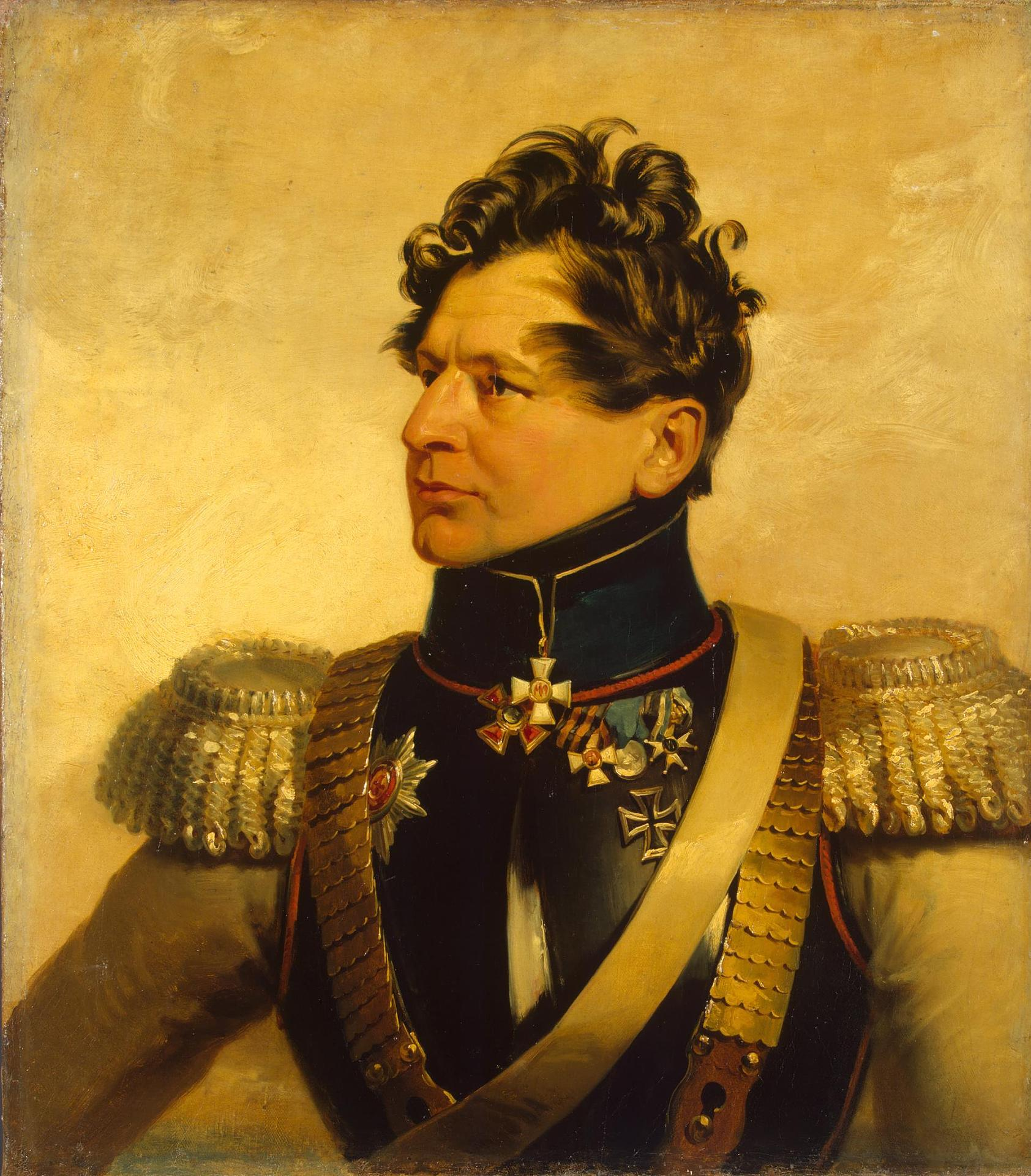 Leontyev, Ivan Sergeyevich (1782 – 10.08.1824) russian major general.